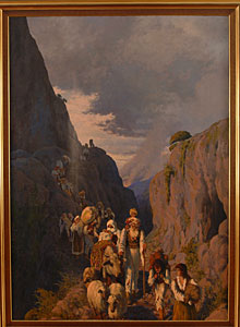 Picture shows escape of Croatian Catholic people from Bosnia and Herzegovina after fall of Bosnian Kingdom (1463.) and Herzegovina (1482.)